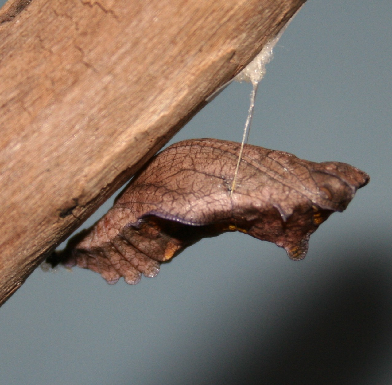 Pipevine Swallowtail (Battus philenor) chrysalis